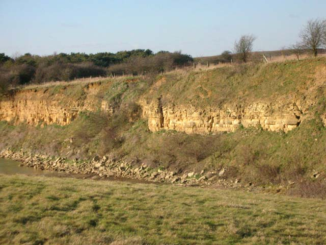 Ironstone Quarry Face. Northamptonshire was extensively quarried for ironstone. This section of the old quarry face survives, but further north is used as the main rubbish tip (land-fill site if you prefer!).